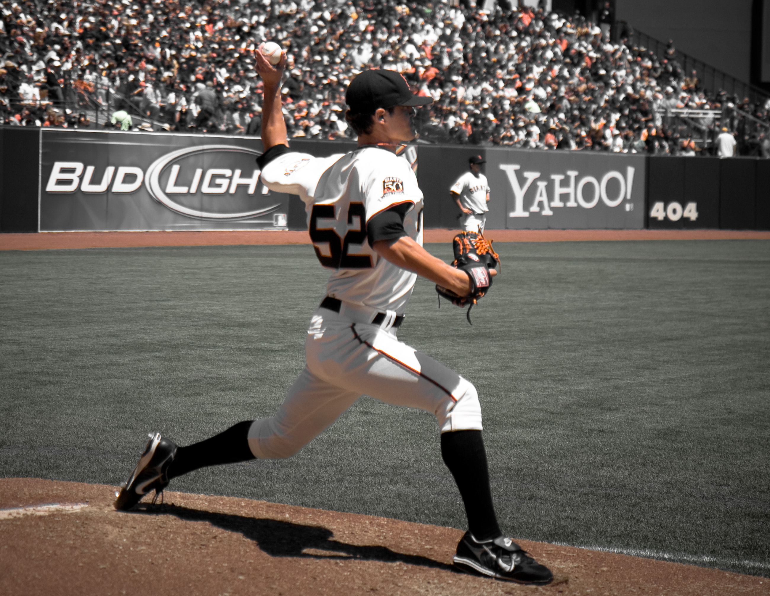 Alex Hinshawgiants pitcher warming up at at&t park